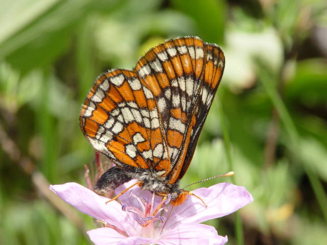 Gillett's Checkerspot, Granite Creek Rec Area, Jackson, WY June 28